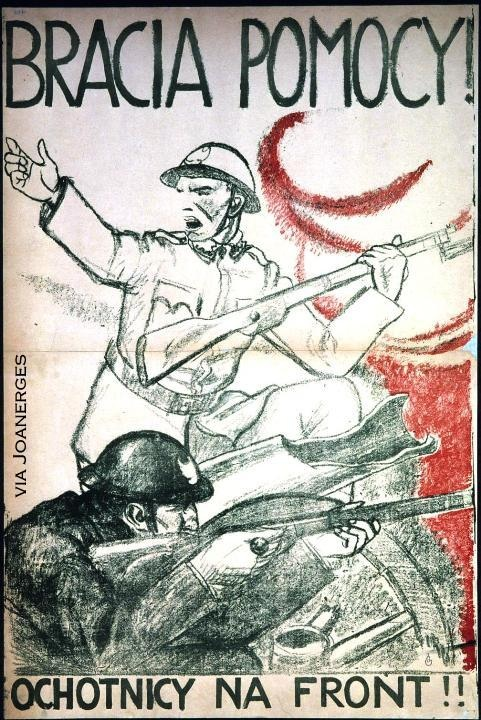 Polish-soviet propaganda poster